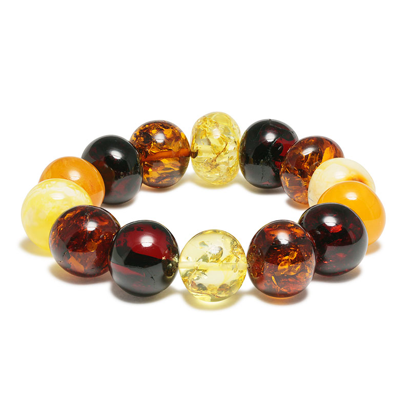 Bracelet with big beads mixing colors brandy, yellow, whilte, wax bee and honey. Brand Nammu.